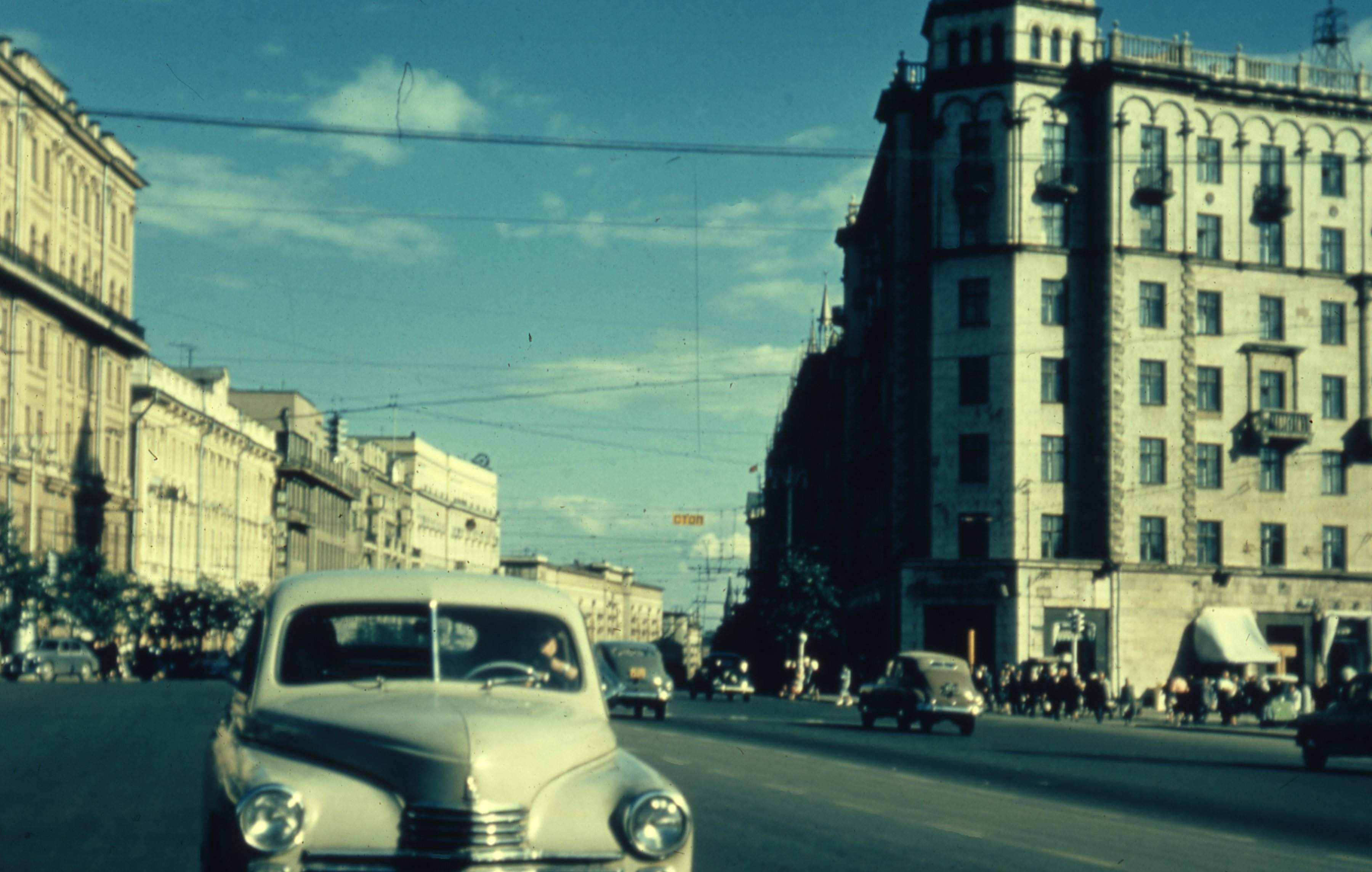 These images were taken by Thomas T. Hammond during his trip to the Soviet Union. This specific image features a view of the street.